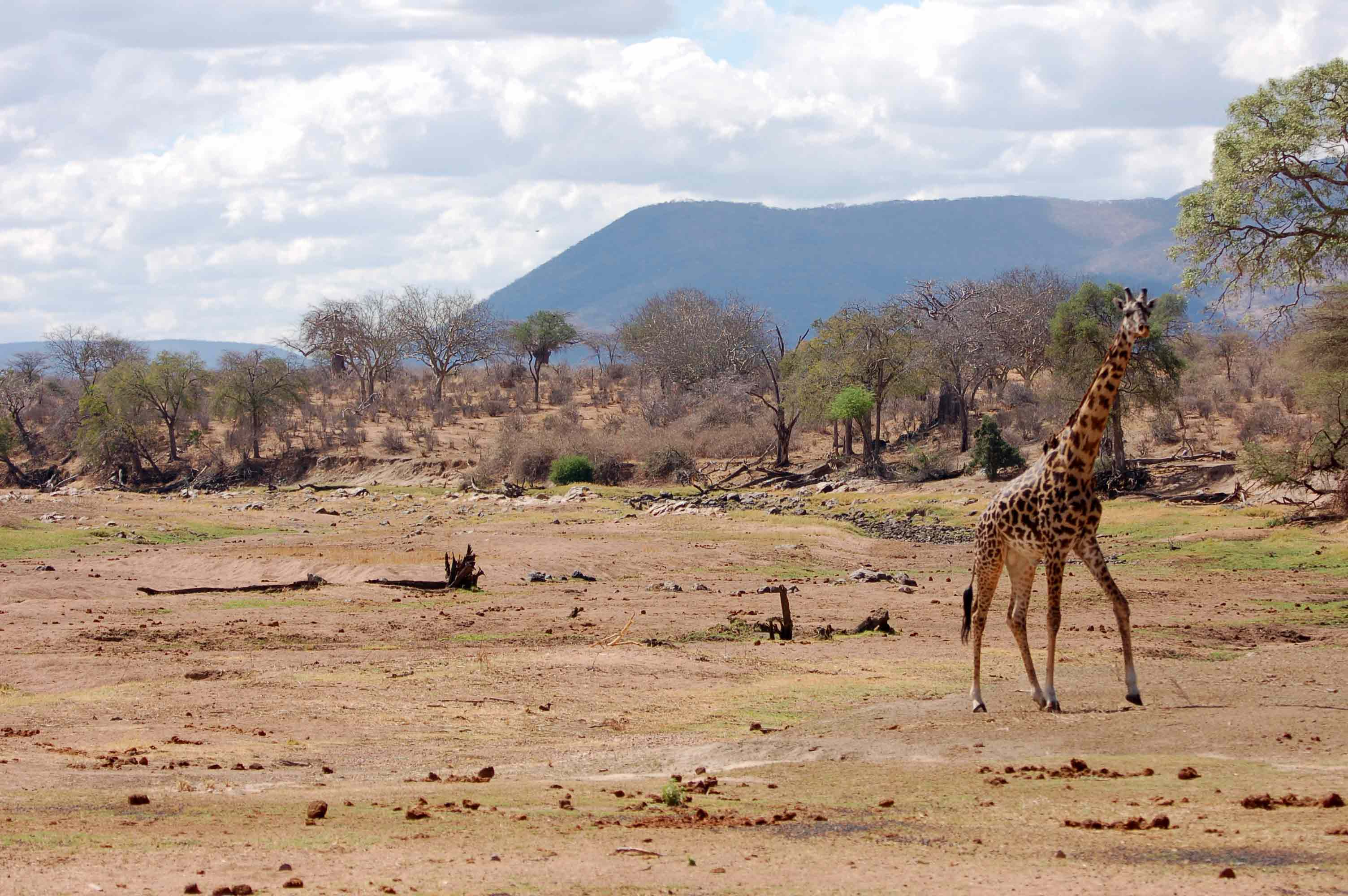 Dry Great Ruaha River and a Giraffe, Ruaha National Park, Tanzania.